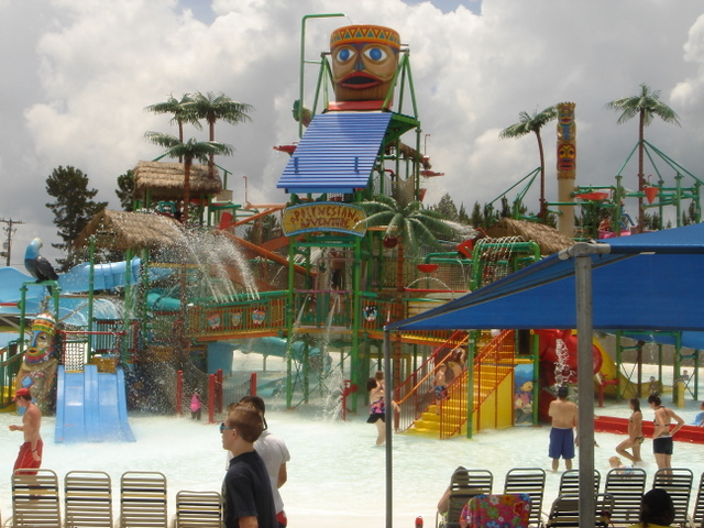 l